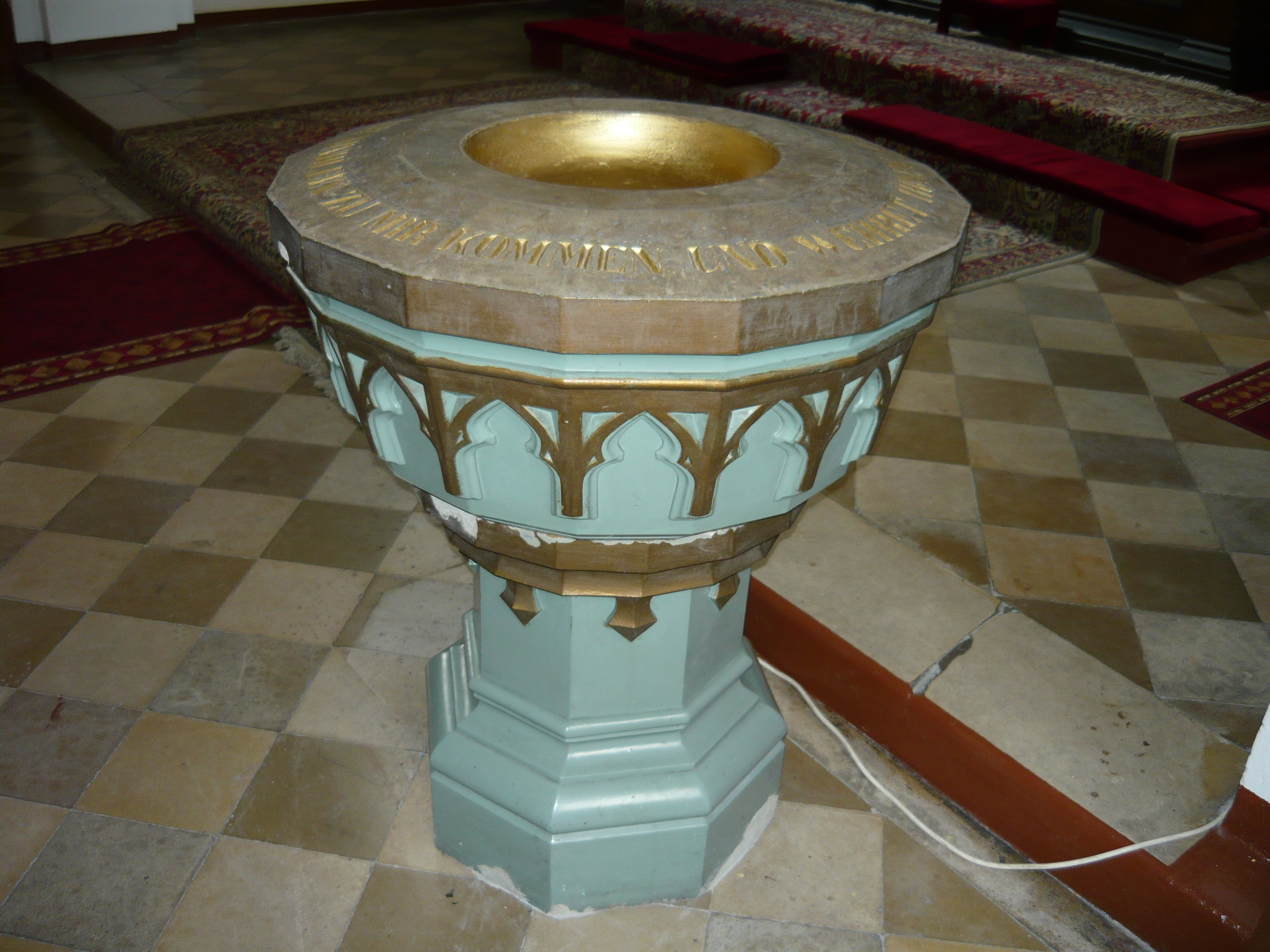 The Baptismal Font in Lutherian Church in Włocławek. There is a inscription in german: Lasset die Kindlein zu mir kommen und wehret ihnen nicht Mark 10,14 (Allow the little children to come to me! Don't forbid them, for the Kingdom of God belongs to such as these, Mark 10,14).